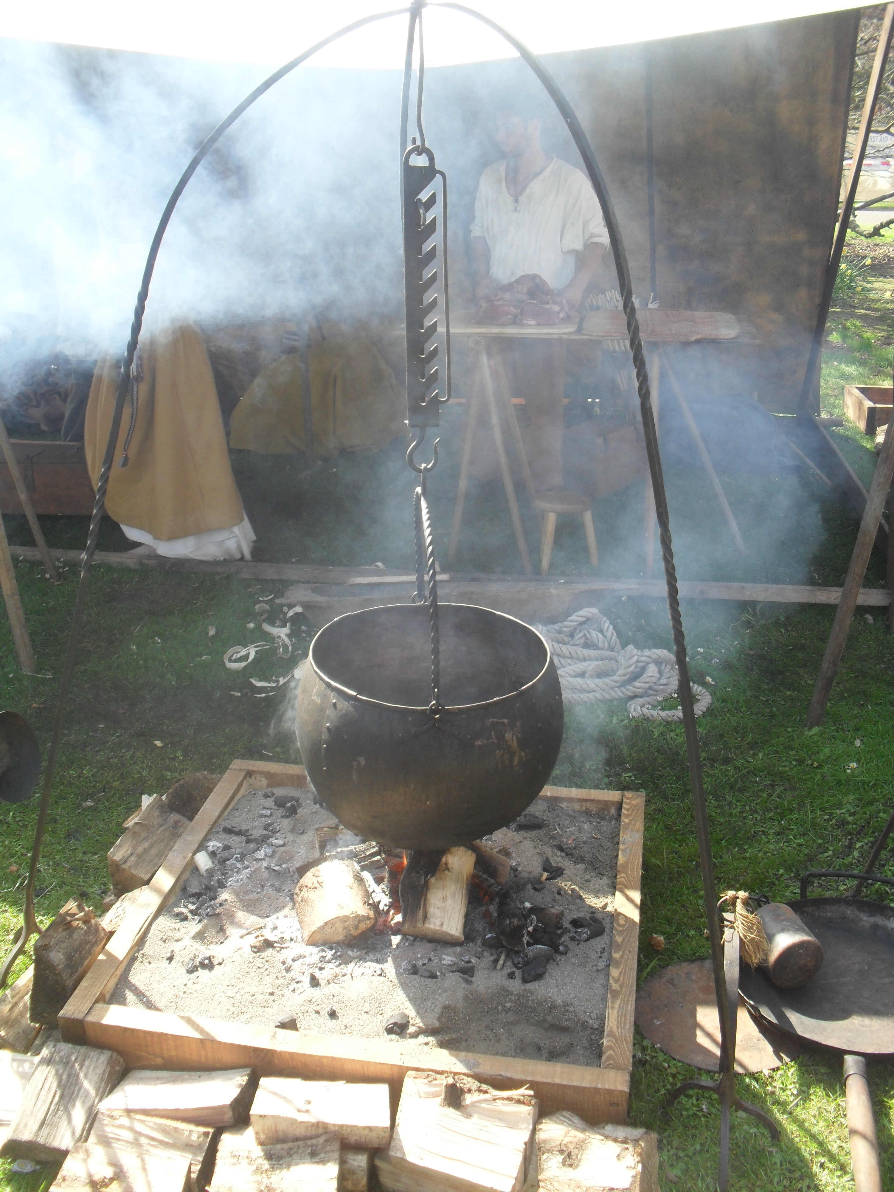 Viking-style cooking pot